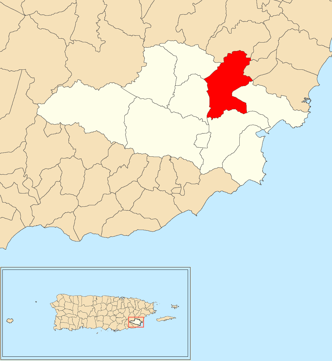 Aguacate, Yabucoa, Puerto Rico locator map